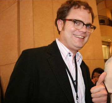 Rainn Wilson at the Dan in Real Life premiere